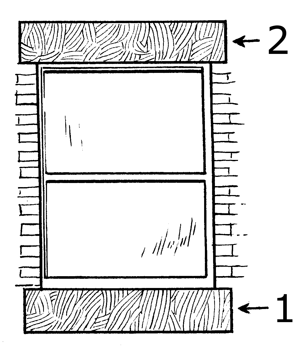 Line art diagram of a window and it's sill. sill (or windowsill) lintel